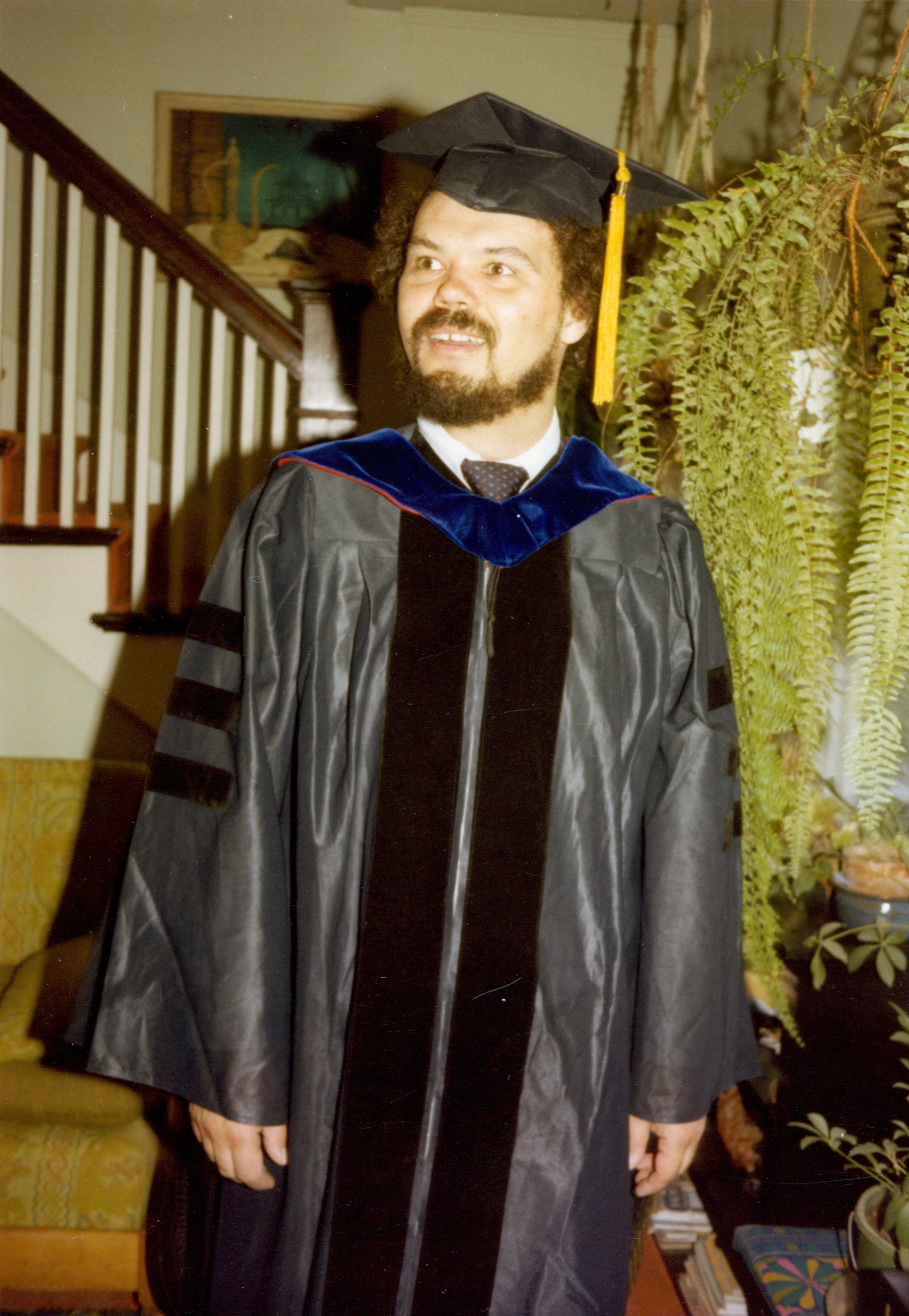 Charlie Werth PHD graduation